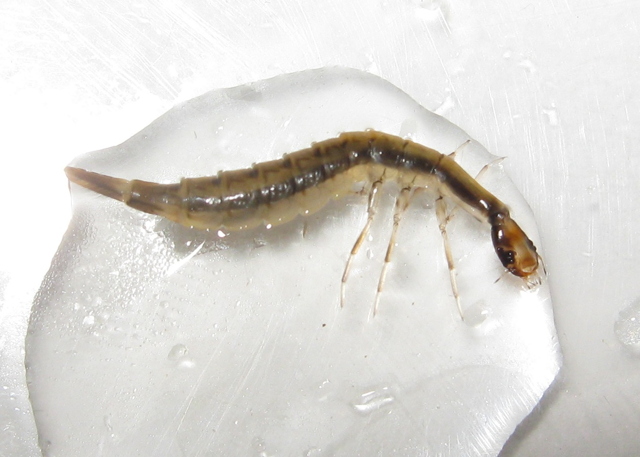 Larva of predaceous diving beetle, Aciliini.Briar Bush Nature Center, Montgomery County, Pennsylvania, USA.